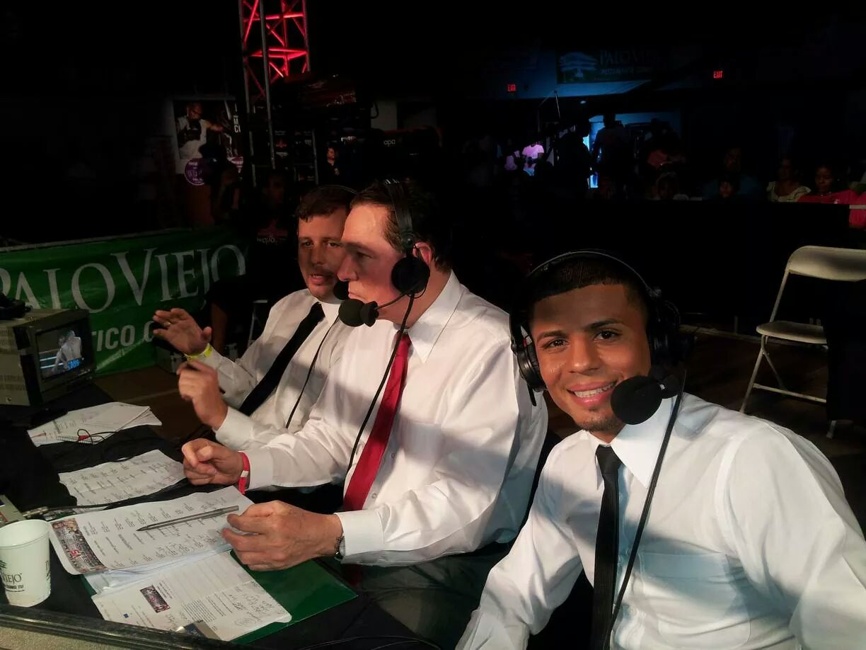 TV Commentator